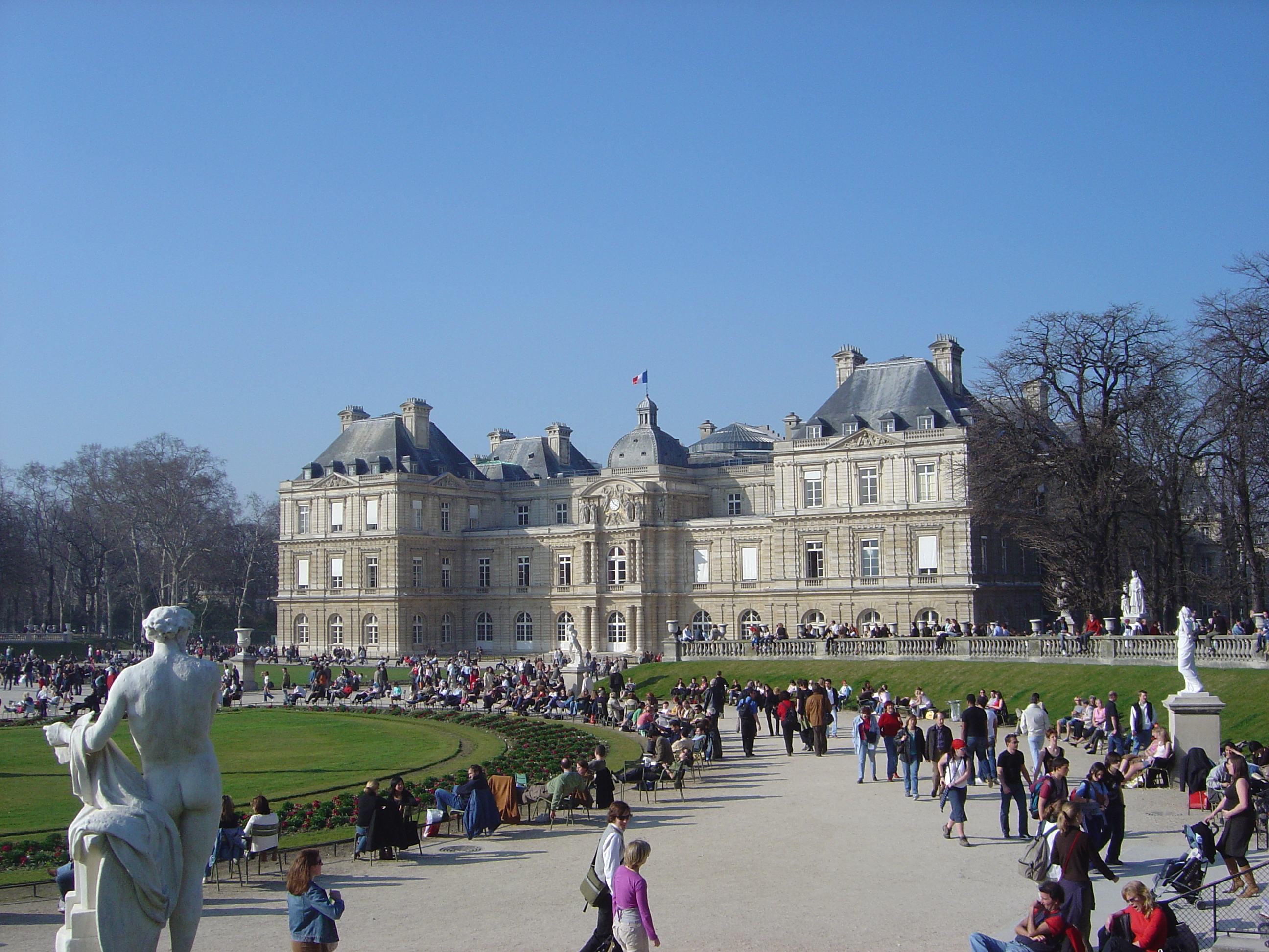 The Luxembourg Palace (now housing the French Senate) seen from the Luxembourg Garden.